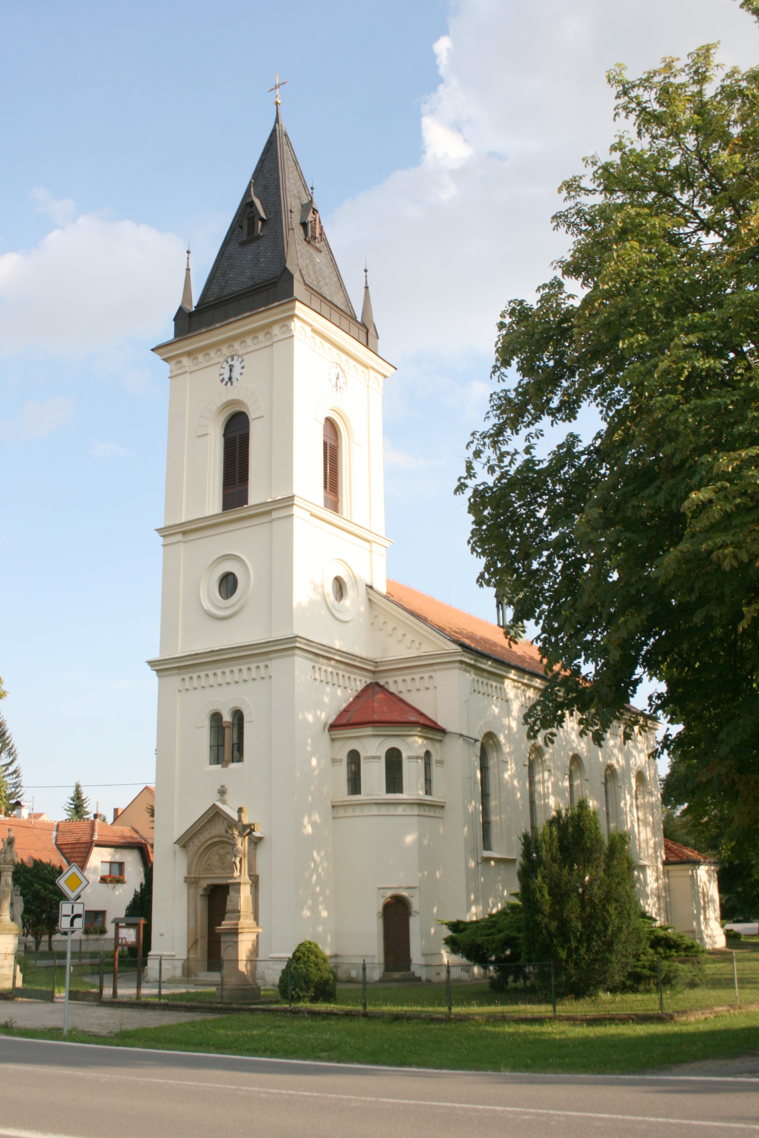 Church of Saint John of Nepomuk in Podolí, Brno-Country District.